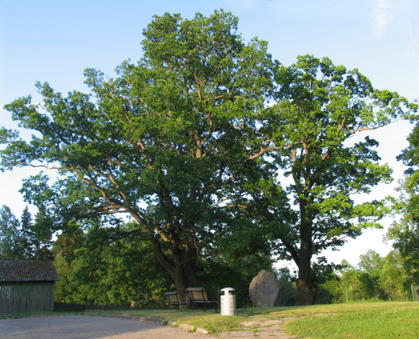 Oaks of Johann Ernst Glück in memoriam of translation of the Holy Bible in Alūksne, Lettland